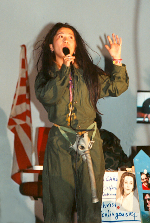 Japanese artist Hanayo playing the role of Yoko Ono